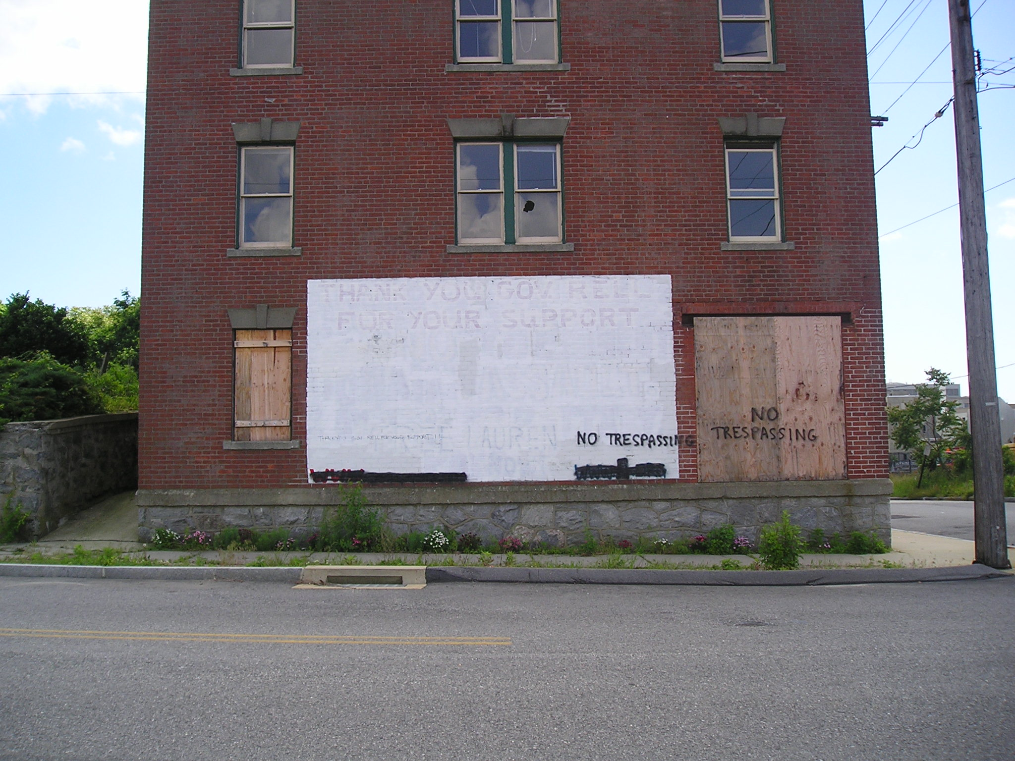 Former Fort Trumbull Neighborhood, New London, CT